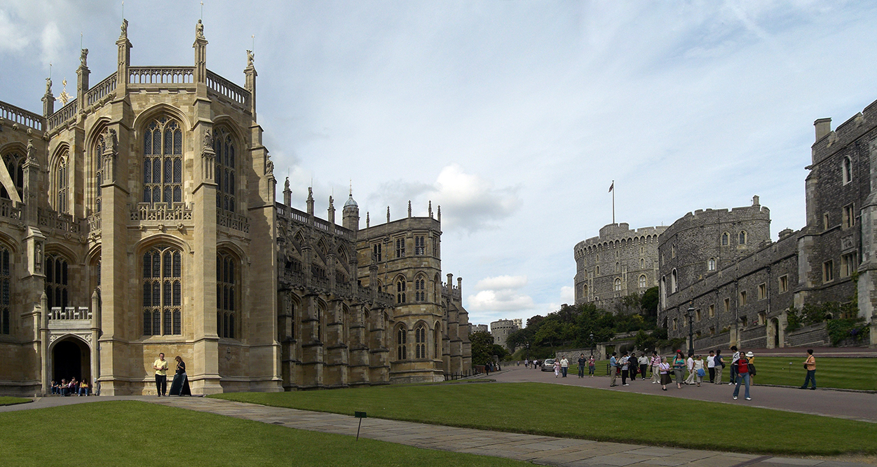 Panoramatic photo of Windsor's Lower Ward